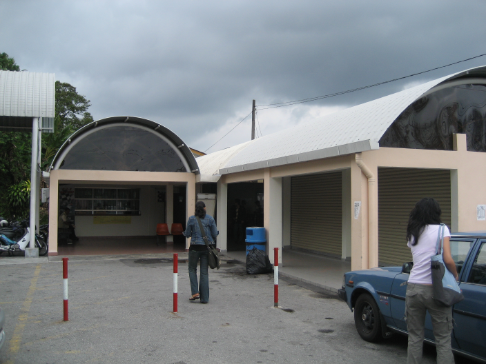 I took this photo in Nilai, Negeri Sembilan, Malaysia in 2007.